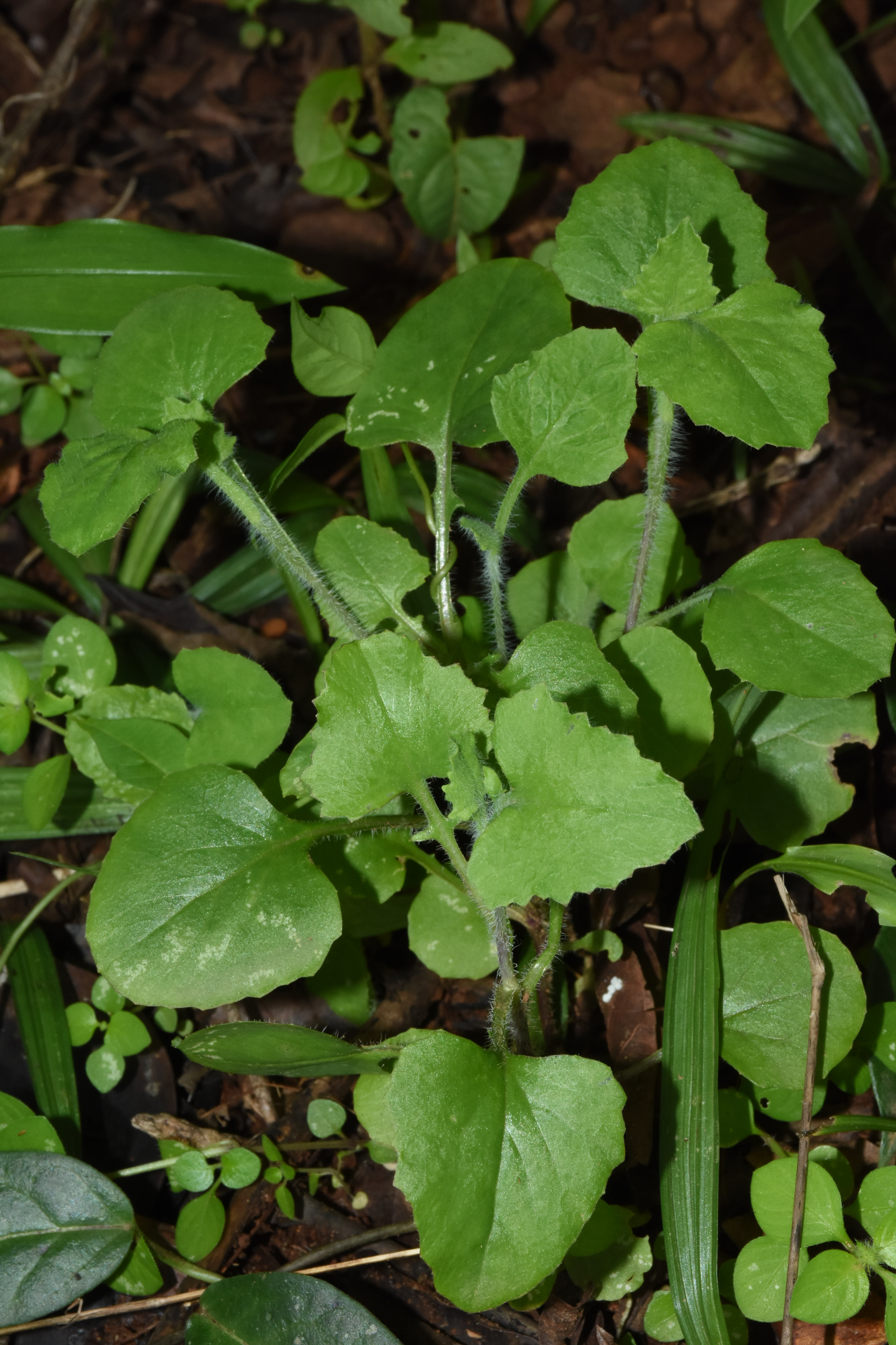 At Neeliyarkottam